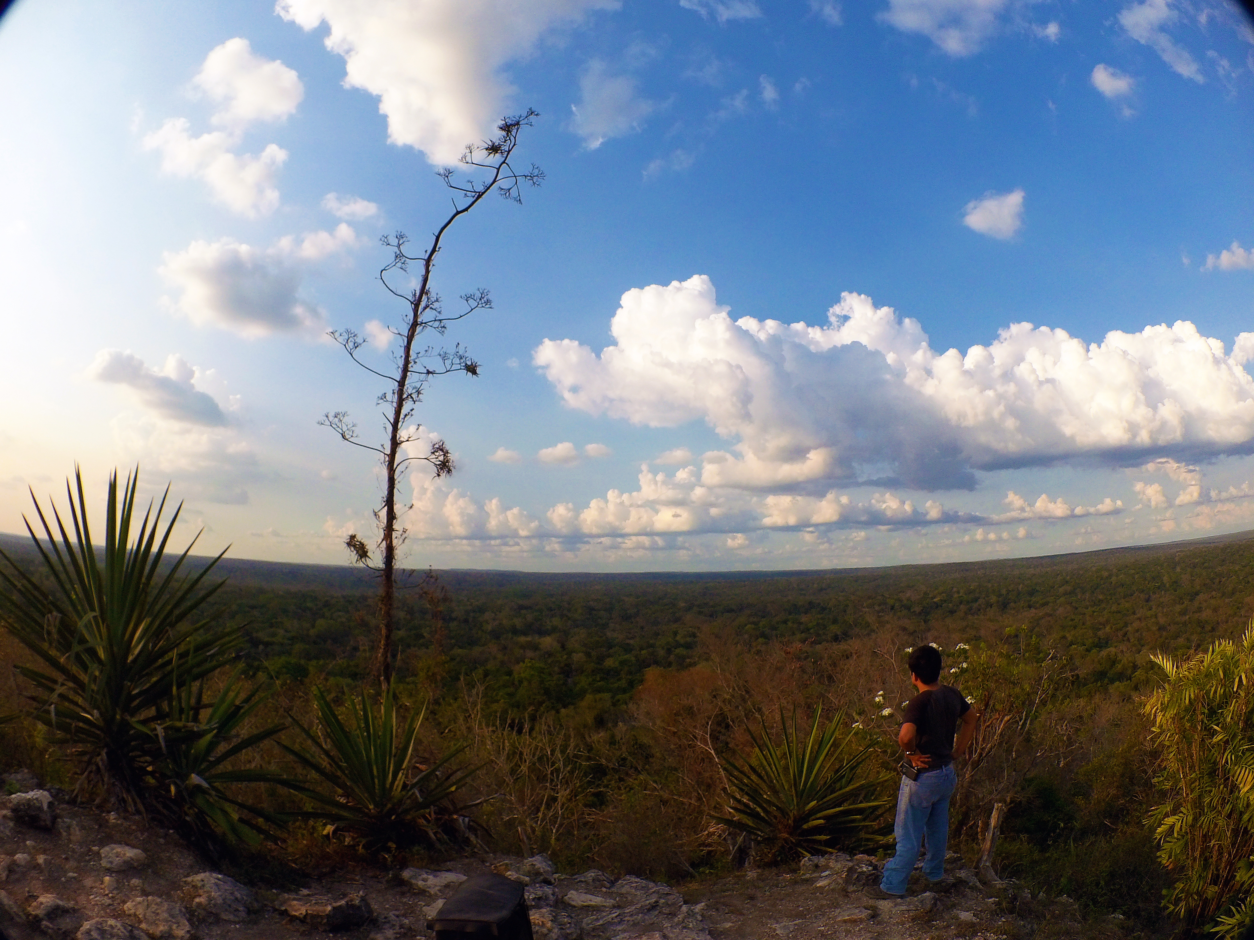 View to the north from the top of El Henequén pyramid at sunset, above the tropical forest canopy, at El Tintal archaeological site, located in the department of Petén, Guatemala.